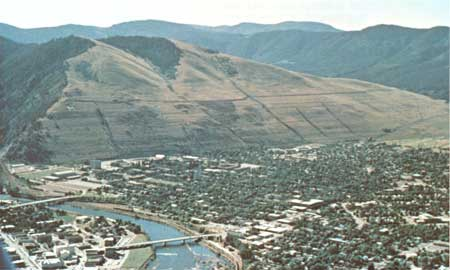 Picture of Mount Sentinel in Missoula showing prehistoric shorelines from Glacial Lake Missoula